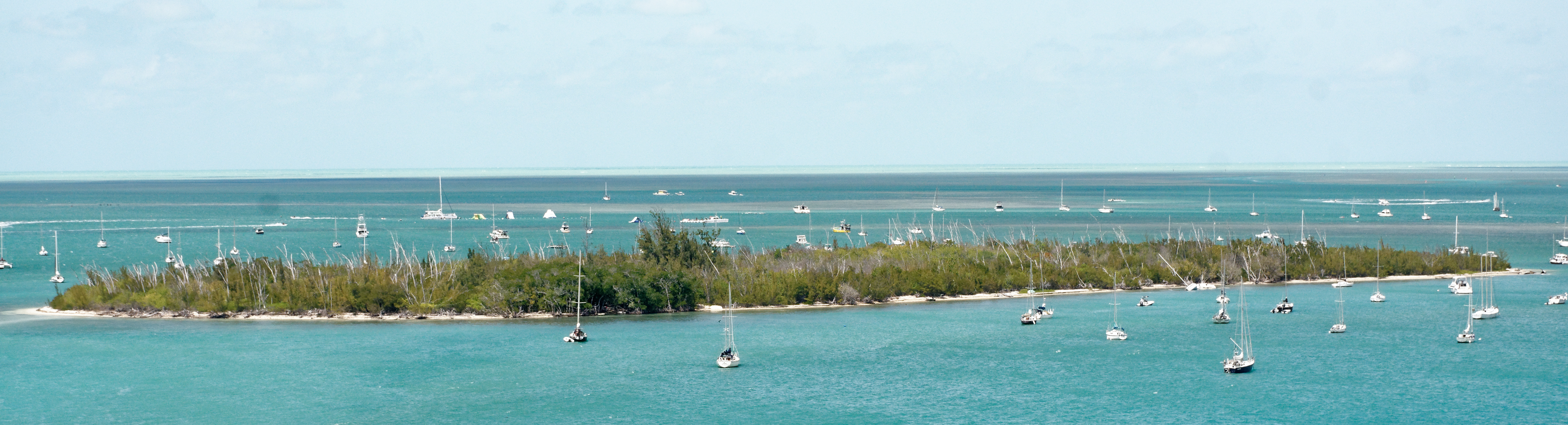 Wisteria Island at Key West, Florida, U.S.